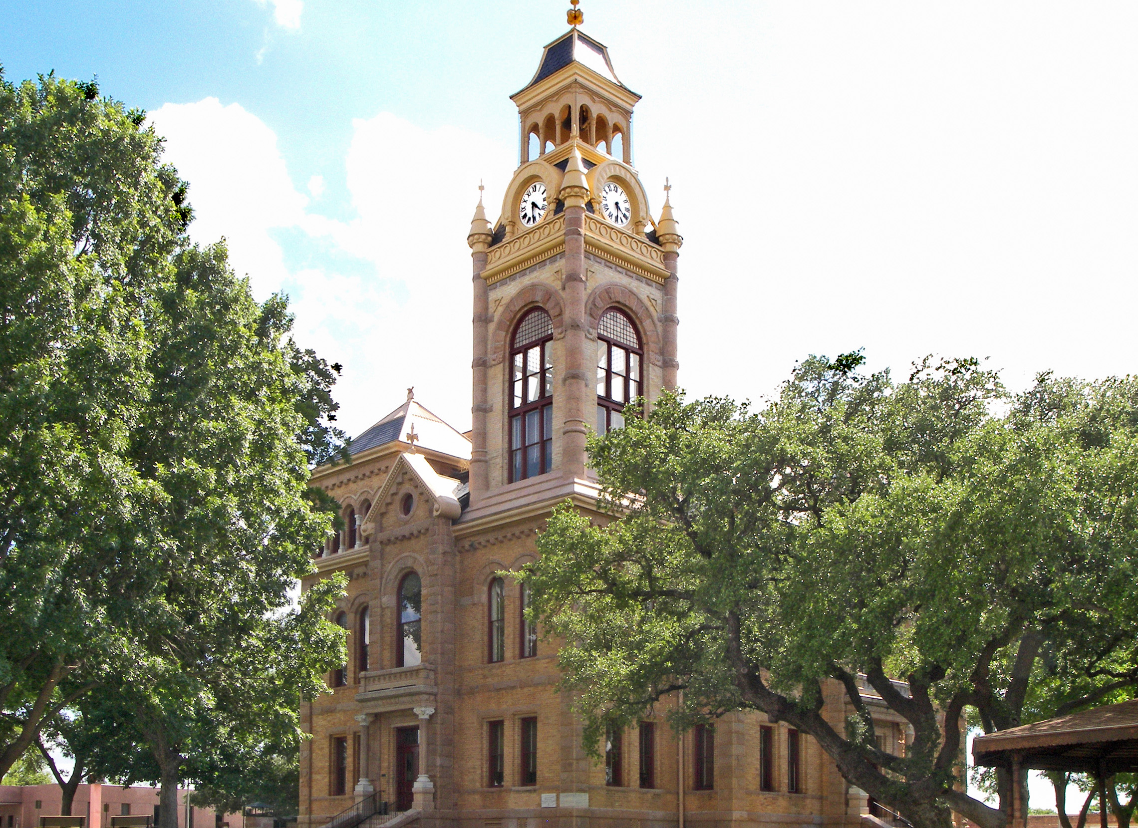 The Llano County Courthouse in, Llano, Texas, United States. The building was listed on the National Register of Historic Places on December 2, 1977 and designated a Recorded Texas Historic Landmark in 1980.